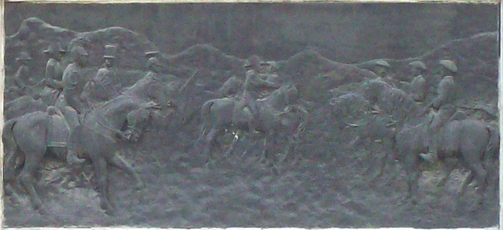 Bronze relief representing the Embrace of Vergara (31 August 1839). Detail of the Monument to Espartero in Madrid (Spain).